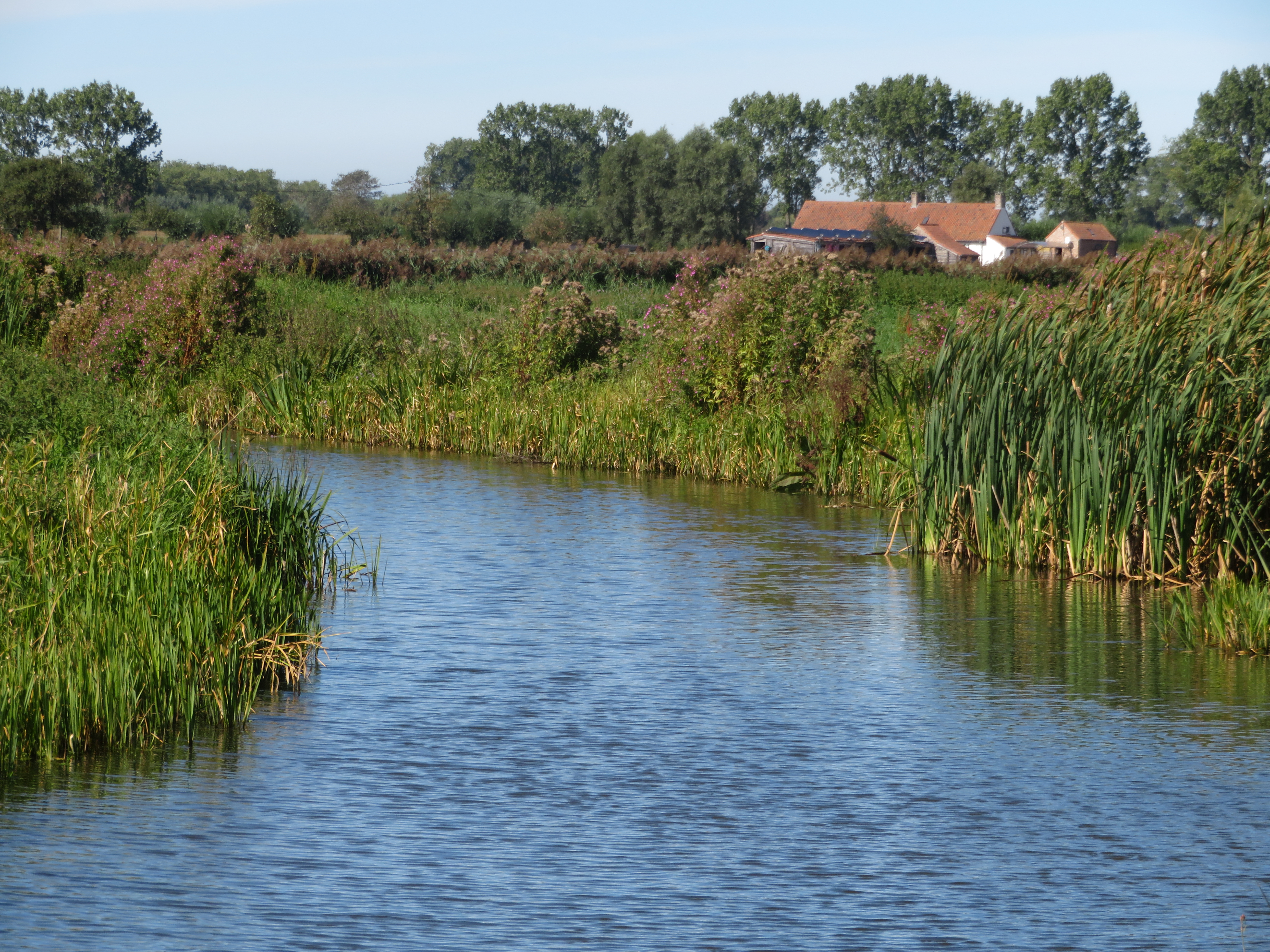 Romboutswerve